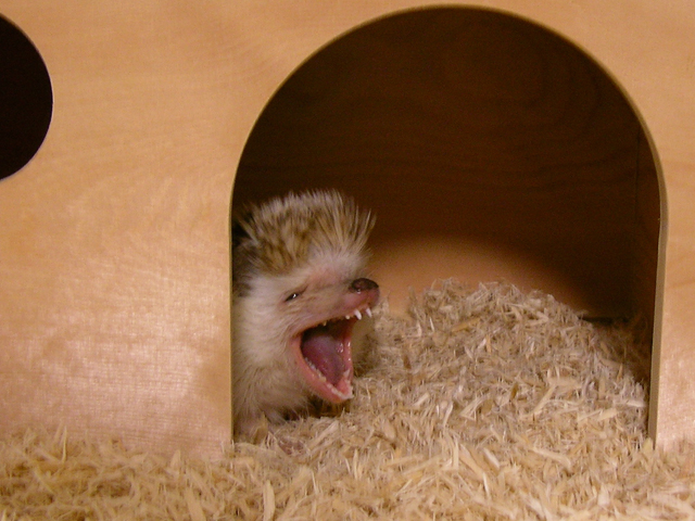 HedgehogA Yawn of My Hedgehog (2)